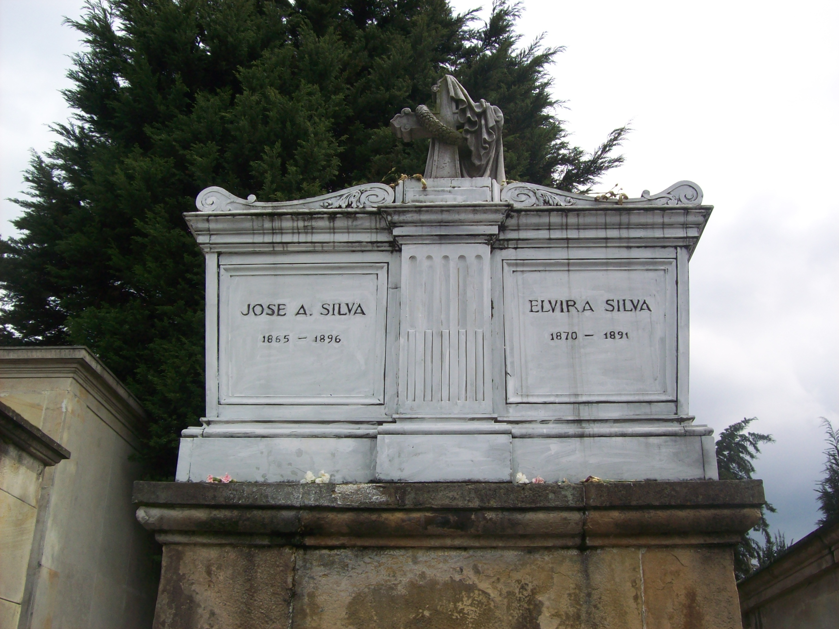 Tomb of Jose Asuncion Silva, Colombian poet